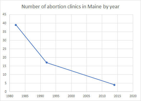 Number of abortion clinics in Maine by year. Data is from articles linked at